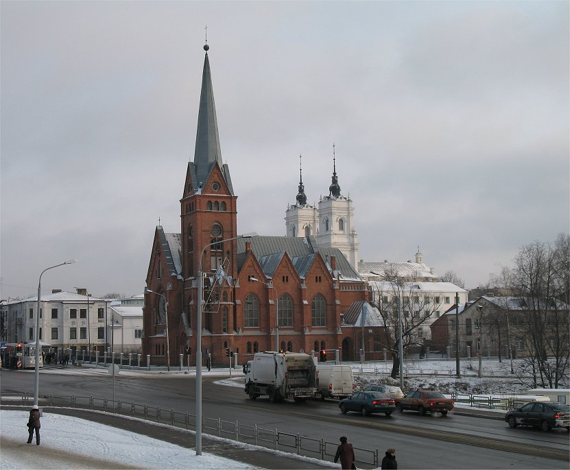 The Lutherian (Lelb Daugavpils Martina Lutera Katedrale, made of red bricks) and Catholic (Daugavpils Dievmates Romas katolu draudzes baznica, 1905, white church) churches in Daugavpilts downtown, seen from west over the 18. Novembre iela (one of the main streets).